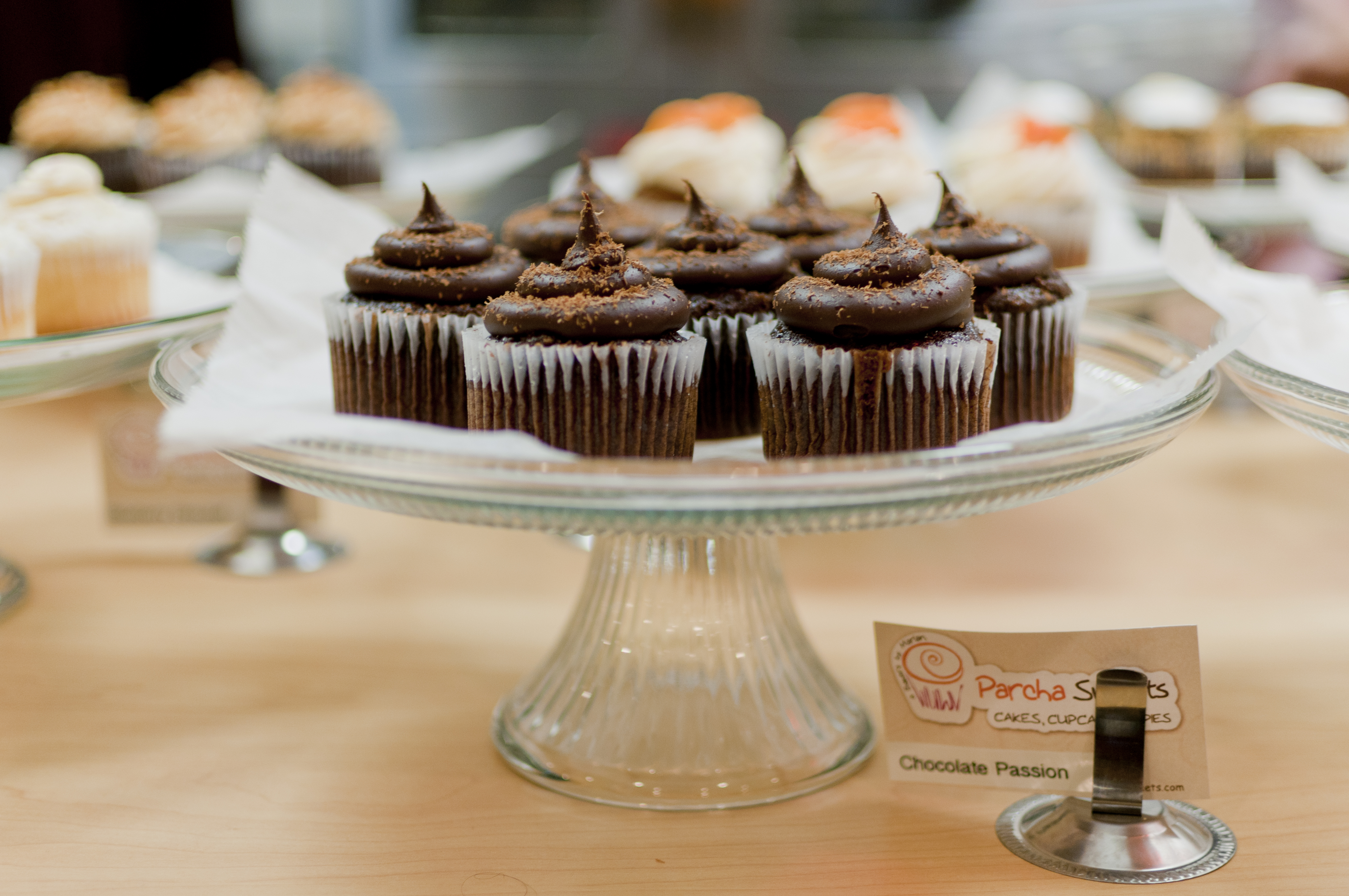 IPC Social Shoot. Parcha Sweets Bakery, 2101 Broad Ripple Ave, Indianapolis.